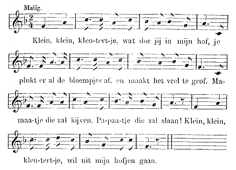 Illustration (sheet music) in the Dutch children's song book "Nederlandsche baker- en kinderrijmen", gathered together by J. van Vloten (3rd print, 1874). Traditional children's song Klein klein kleutertje.